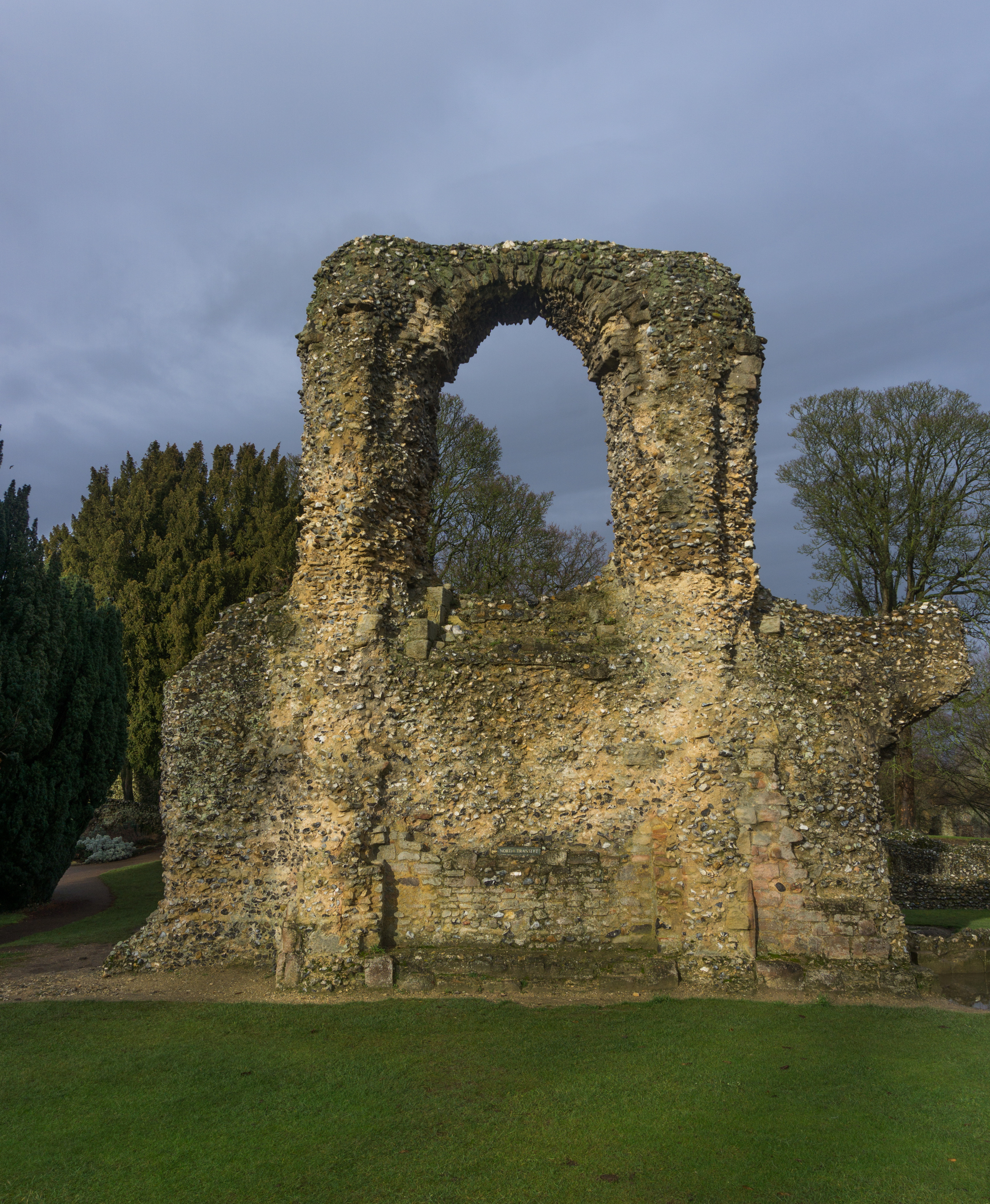 North transept of the Abbey of St. Edmund at Bury St. Edmunds, Suffolk.